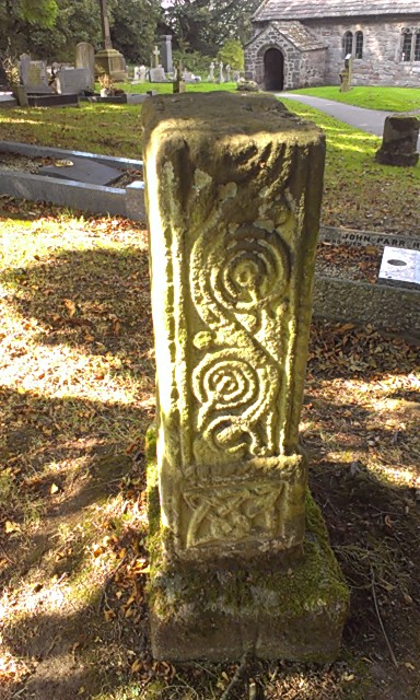 High cross in St Peter's churchyard, Heysham, side view with Saxon decoration Wikidata has entry Q7595250 with data related to this monument.